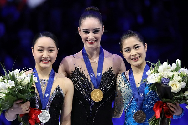 Photos – World Championships 2018 – Ladies (Medalists)